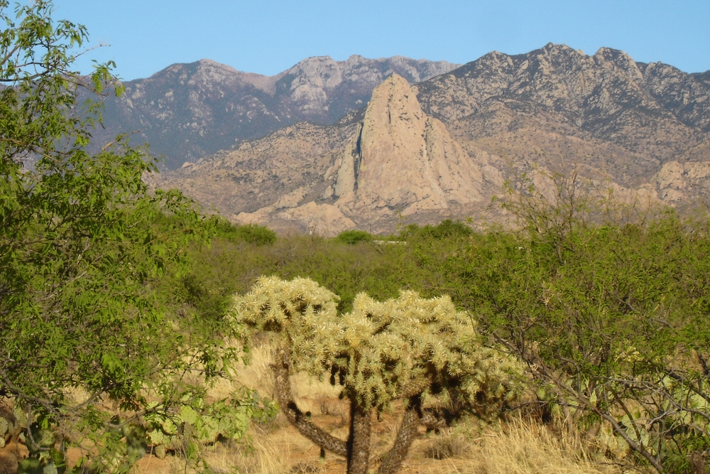 Habitat of Arizona-Woodpecker